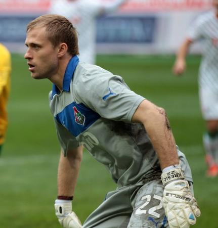 Dario Krešić playing for FC Lokomotiv Moscow.